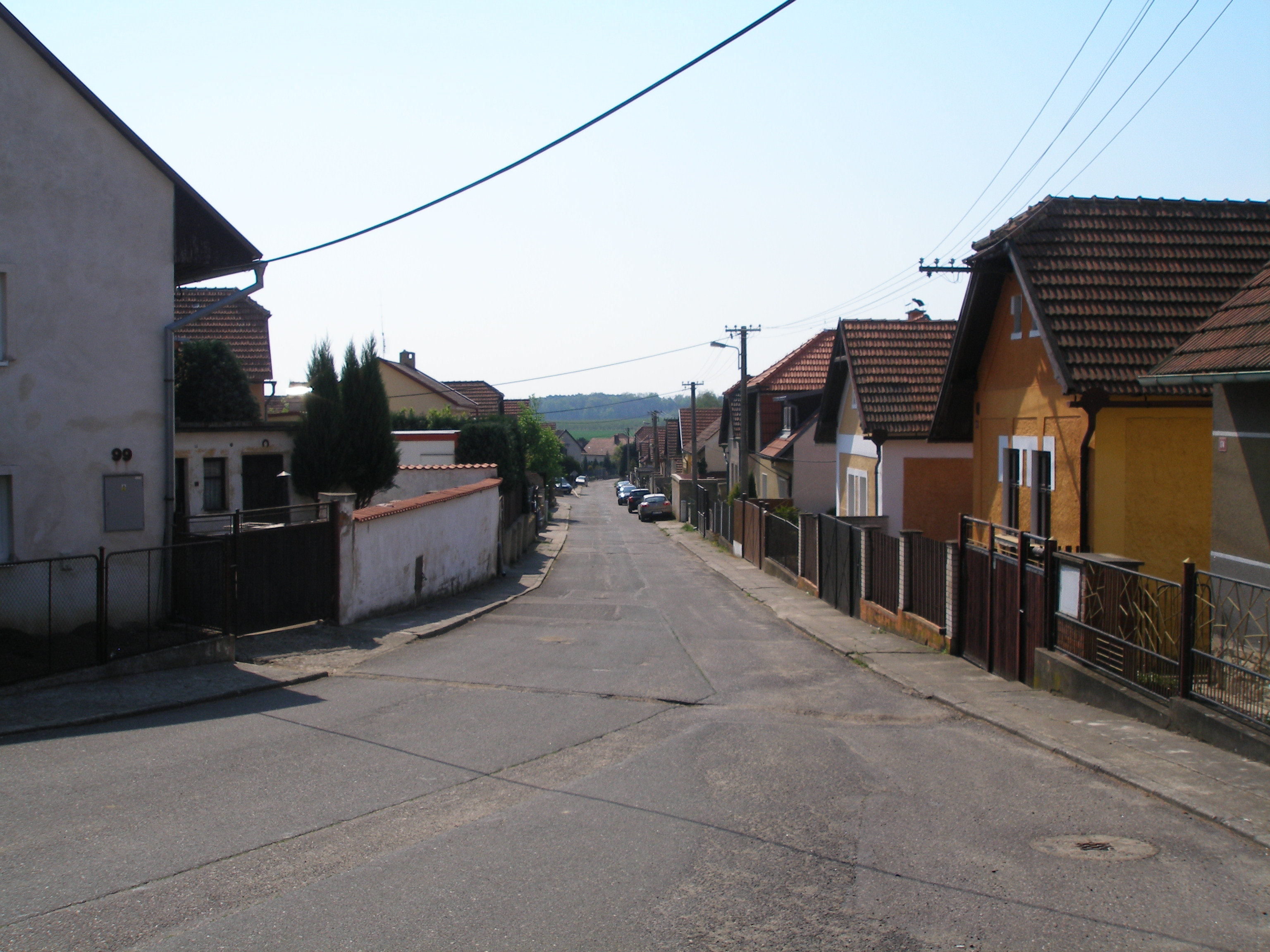 Street in Horní Beřkovice.